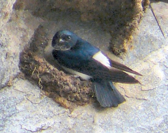 Nepal House Martins and nests in Bhutan.